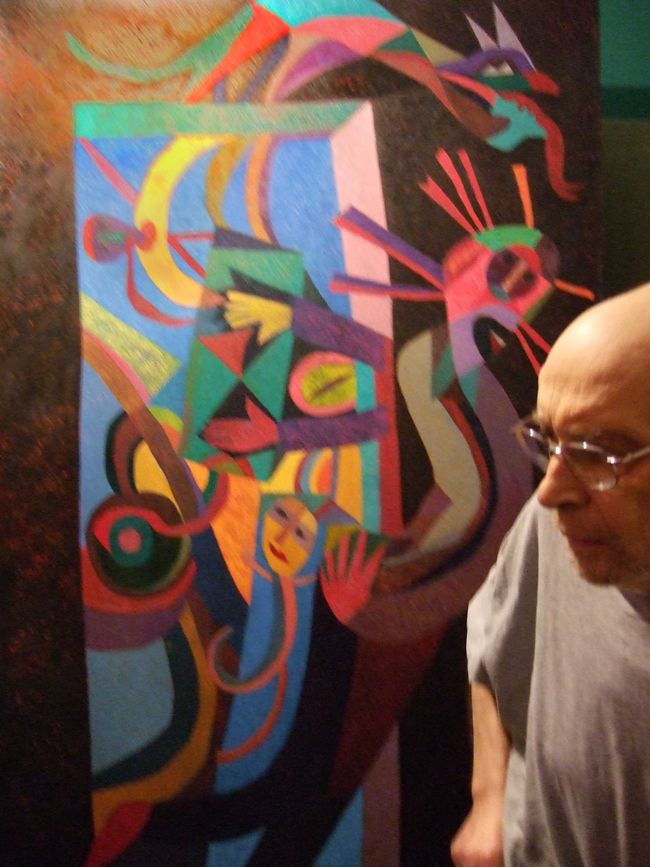 Portrait of Dave Pearson